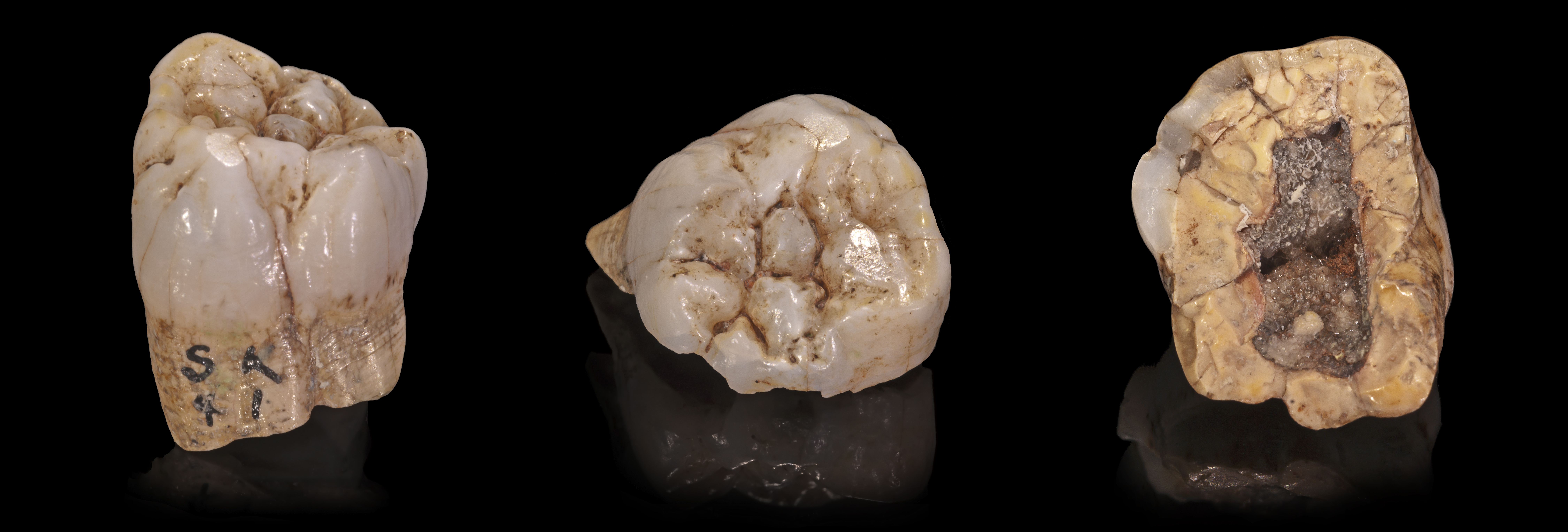 Tooth of Paranthropus robustus SKX 11 from Swartkrans (26°00'S 27°45'E), Gauteng, South Africa to 1.8 million years. Collection of the Transvaal Museum, Northern Flagship Institute, Pretoria South-Africa - Different views of same specimen - (21.53x15.20x15.49 mm)